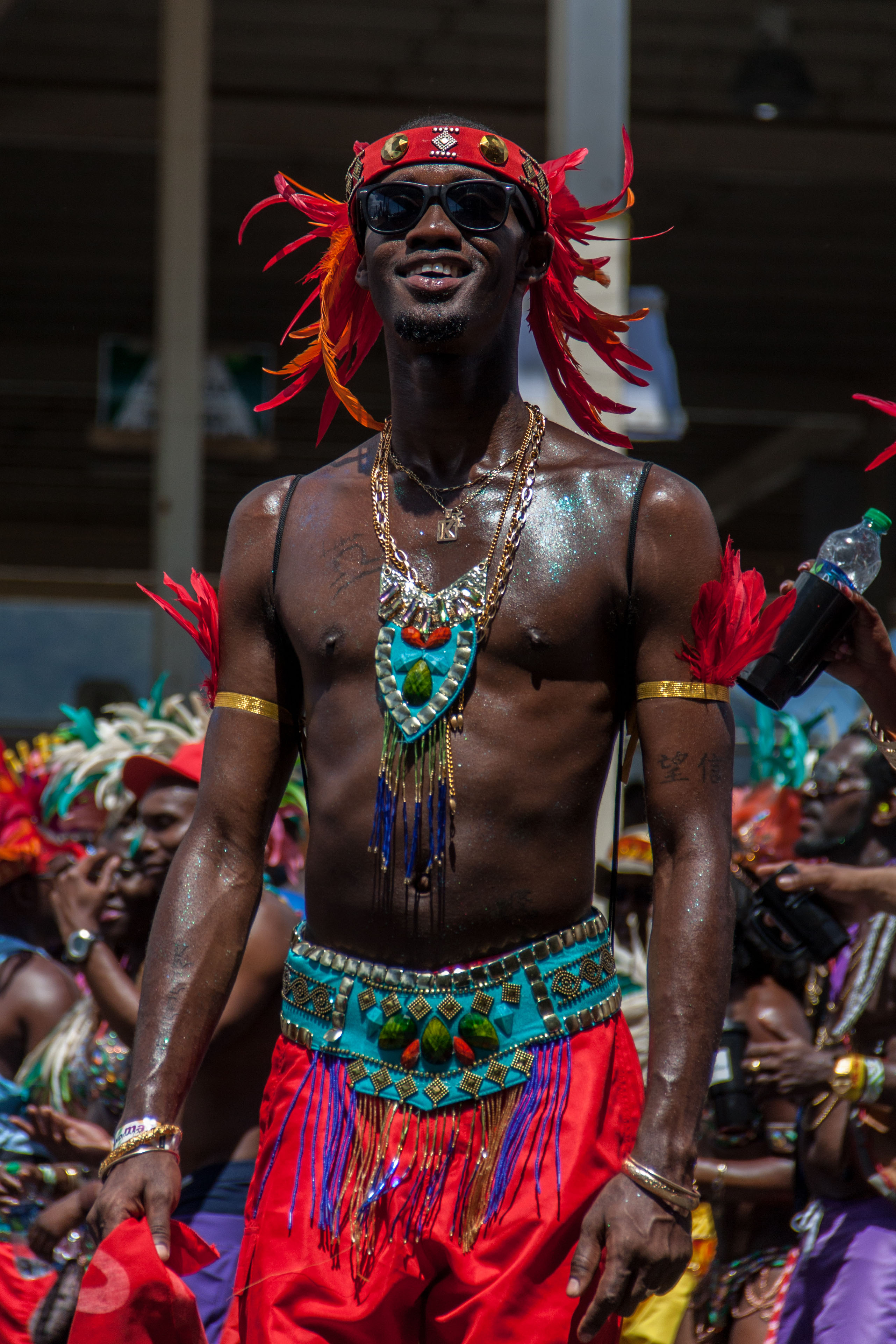 Parade of the Bands, Trinidad & Tobago